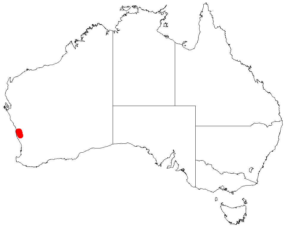 Acacia wilsonii occurrence data from Australasia Virtual Herbarium downloaded from on 8 December 2018